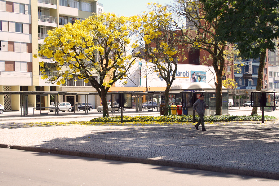 View of Curitiba, Brasil. Rui Barbosa Square. End of Winter and Tabebuia alba (ipê-amarelo) blossoming.